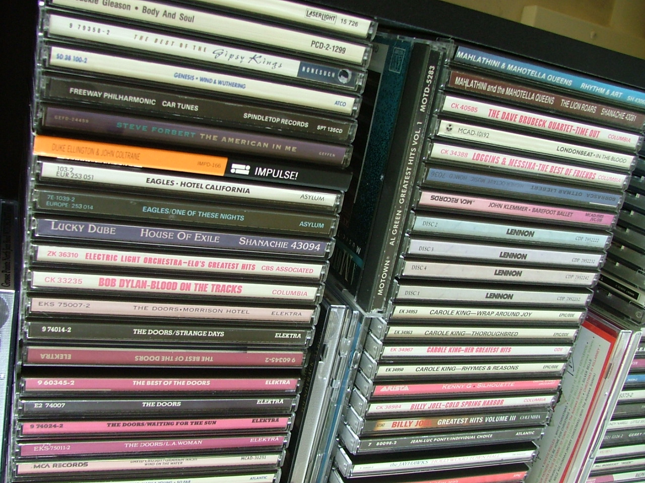 A compact disc rack